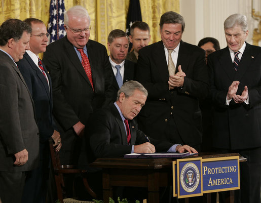 President George W. Bush signs into law S. 3930, the Military Commissions Act of 2006, during a ceremony Tuesday, Oct. 17, 2006, in the East Room of the White House. Joining him on stage, from left are: Utah Rep. Chris Cannon, Indiana Rep. Steve Buyer, Wisconsin Rep. Jim Sensenbrenner, Sen. Lindsey Graham of South Carolina, California Rep. Duncan Hunter, and Sen. John Warner of Virginia. General Peter Pace, Chairman of the Joint Chiefs of Staff, and U.S. Attorney General Alberto Gonzales are in the background. White House photo by Paul Morse